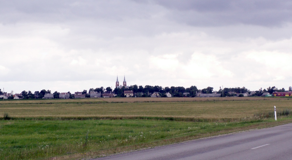 Gruzdžiai – city in Lithuania